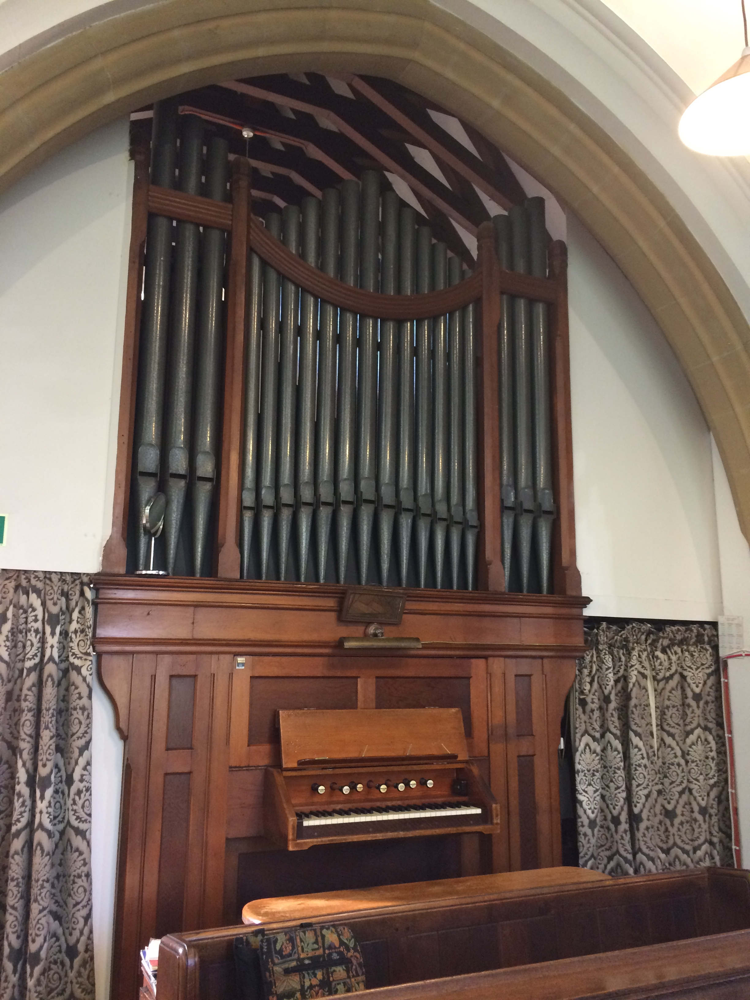 Organ